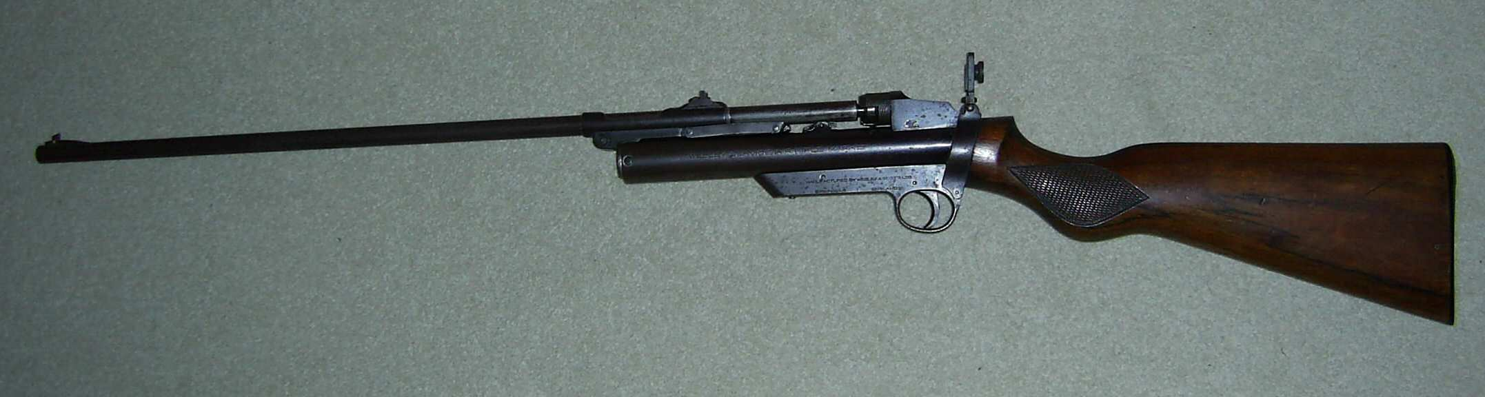 Webley service air rifle mk II, manufactured by Webley and Scott, Birmingham, England. Design has interchangeable barrels in three calibres, breech locked by bolt action, introduced 1929.